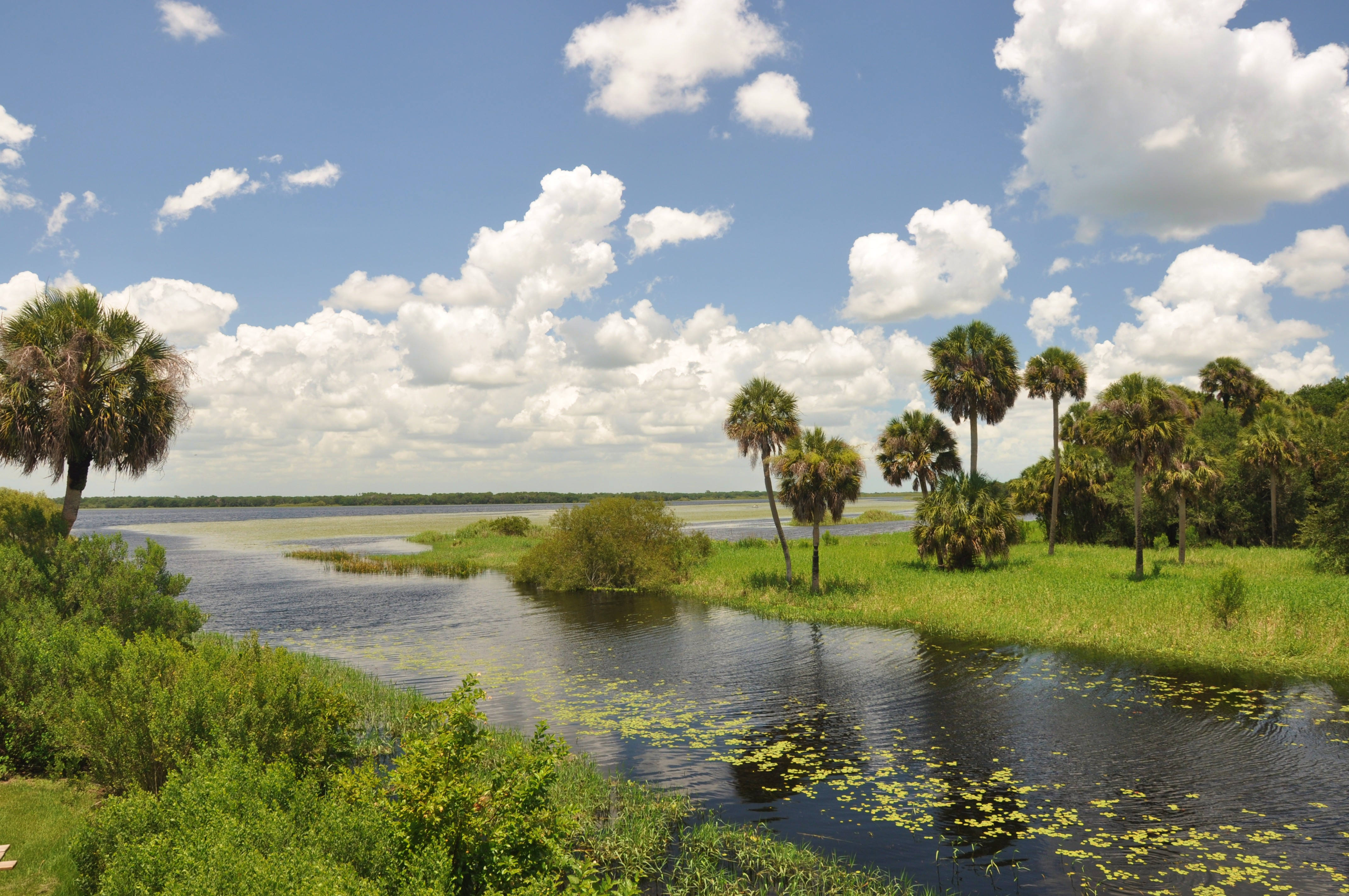 Looking toward the Myakka river